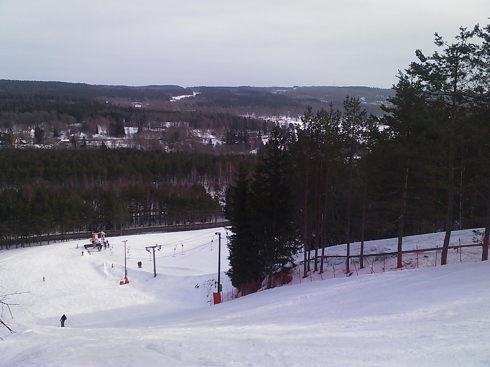 Ulricehamn ski center, Sweden